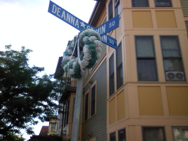 Deanna Cremin Square in Somerville, Massachusetts, United States; named after a 1995 murder victim. The sign still serves as a memorial, and is decorated with a wreath every year by her family.[1]